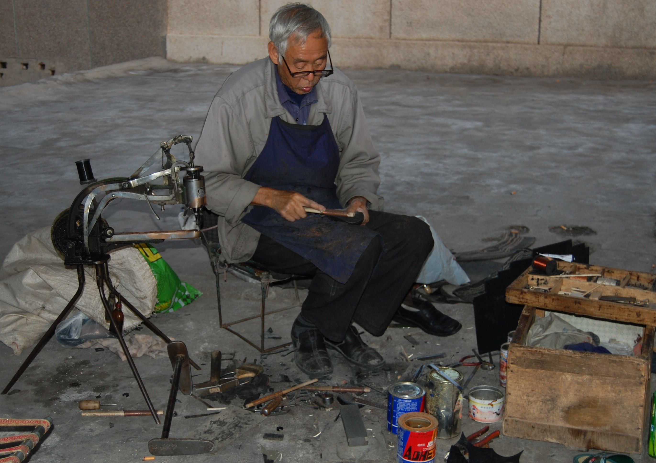 Shoemaker in Jiayuguan, Gansu province, China